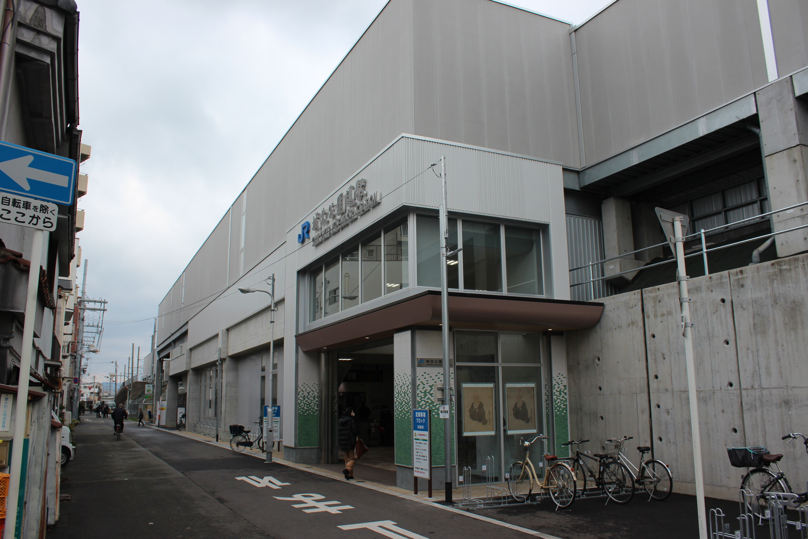 城北公園通駅西口 Canon EOS Kiss X5